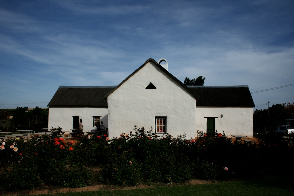 Doornboom Opstal - also known as Fourie House. One of the oldest houses in the Region, and the oldest in Heidelberg.